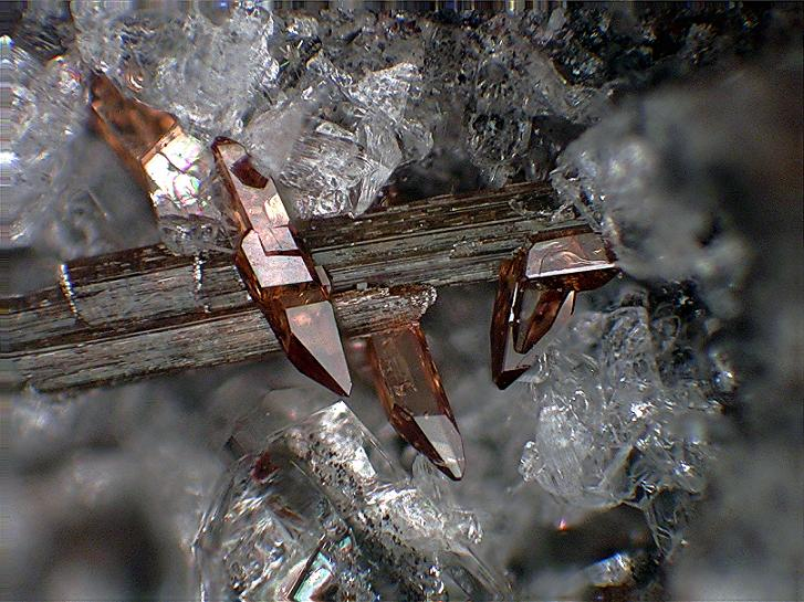 Several Titanite on amphibole (image width 2 mm) - Locality: Wannenköpfe, Ochtendung, Eifel region, Germany